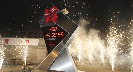 The clock in Trafalgar Square in London displaying a countdown to the opening of the 2012 Summer Olympics: from top, days, hours, minutes, seconds.